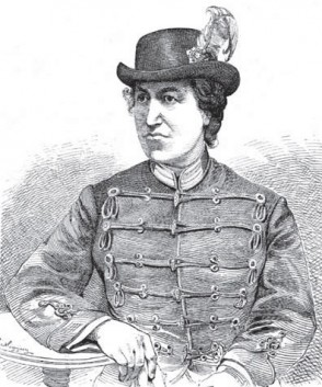 Maria Lebstück a Hungarian hussar lieutenant